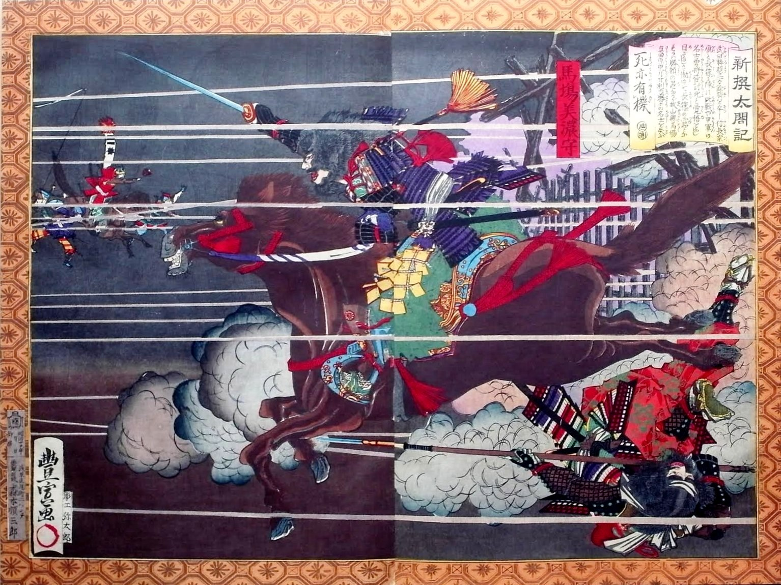 Woodblock diptych by Utagawa Toyonobu from the series „Newly Biography of Taikō“ (Shinsen Taikōki), diptych no. 20, 長篠合戰 - Nagashino kassen - the battle of Nagashino; publisher: Morimoto Junzaburō (森本順三郎); carver seal „hori kō Yatarō“ (Watanabe Yatarō); format: 2 ōban. Depicted is Baba Mino no kami in the battle of Nagashino.